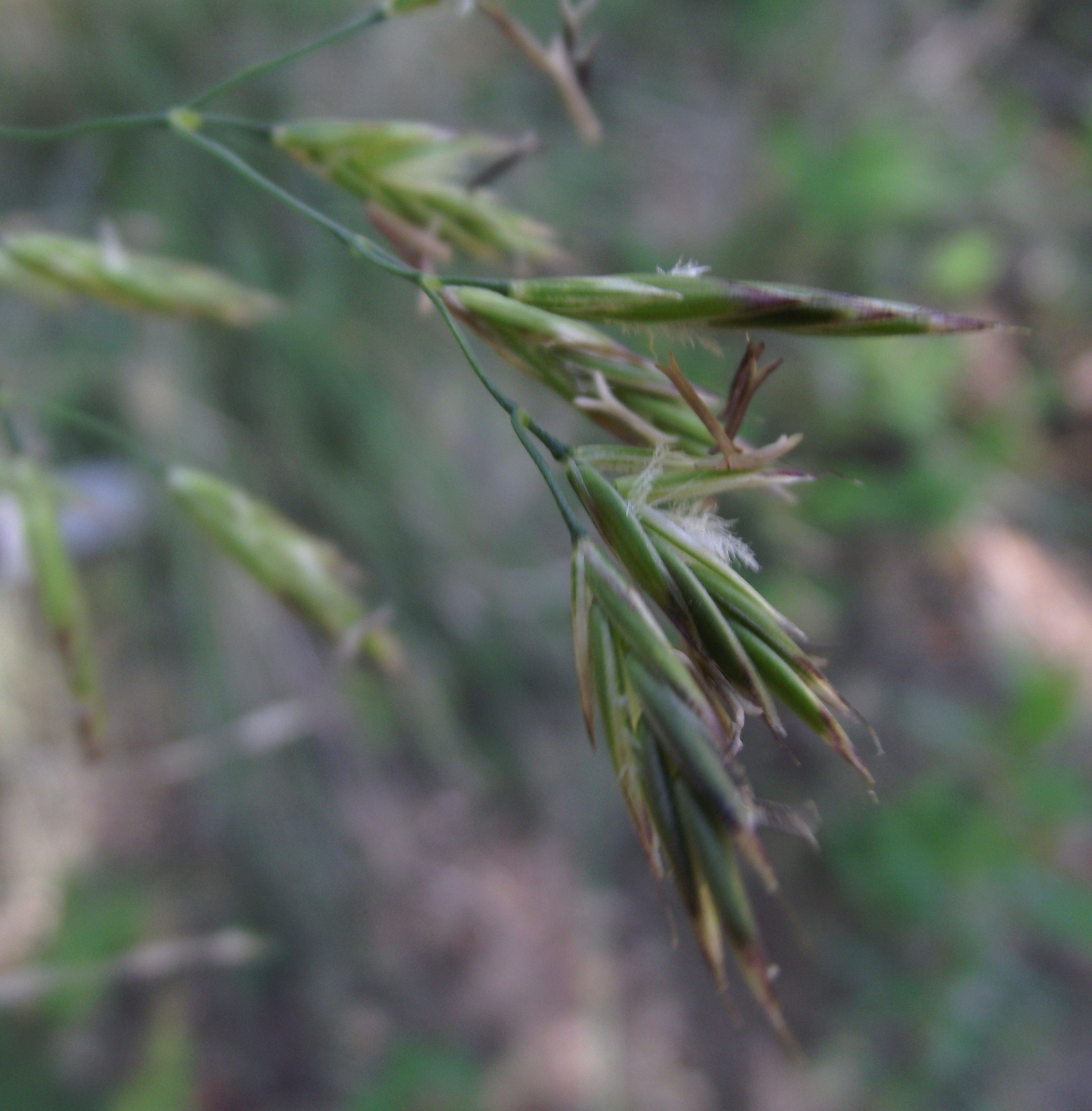 Achnatherum lemmonii in the UC Botanical Garden, Berkeley, California, USA. Identified by sign.